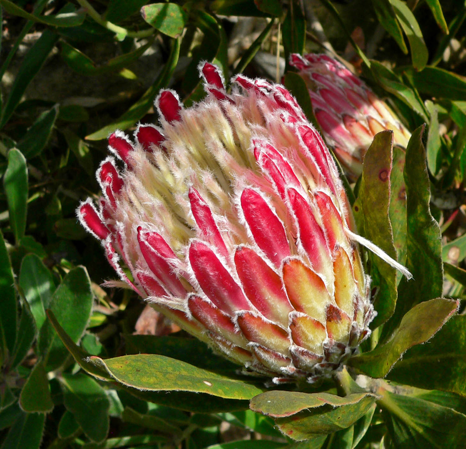 Photo of Protea obtusifolia 'Holiday Red' at the San Francisco Botanical Garden